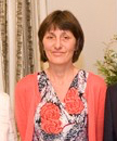 Brigid Lowry at a reception at Government House, Wellington, on 19 May 2008, to celebrate the 2008 Sargeson Fellows (Brigid Lowry and Paula Morris)